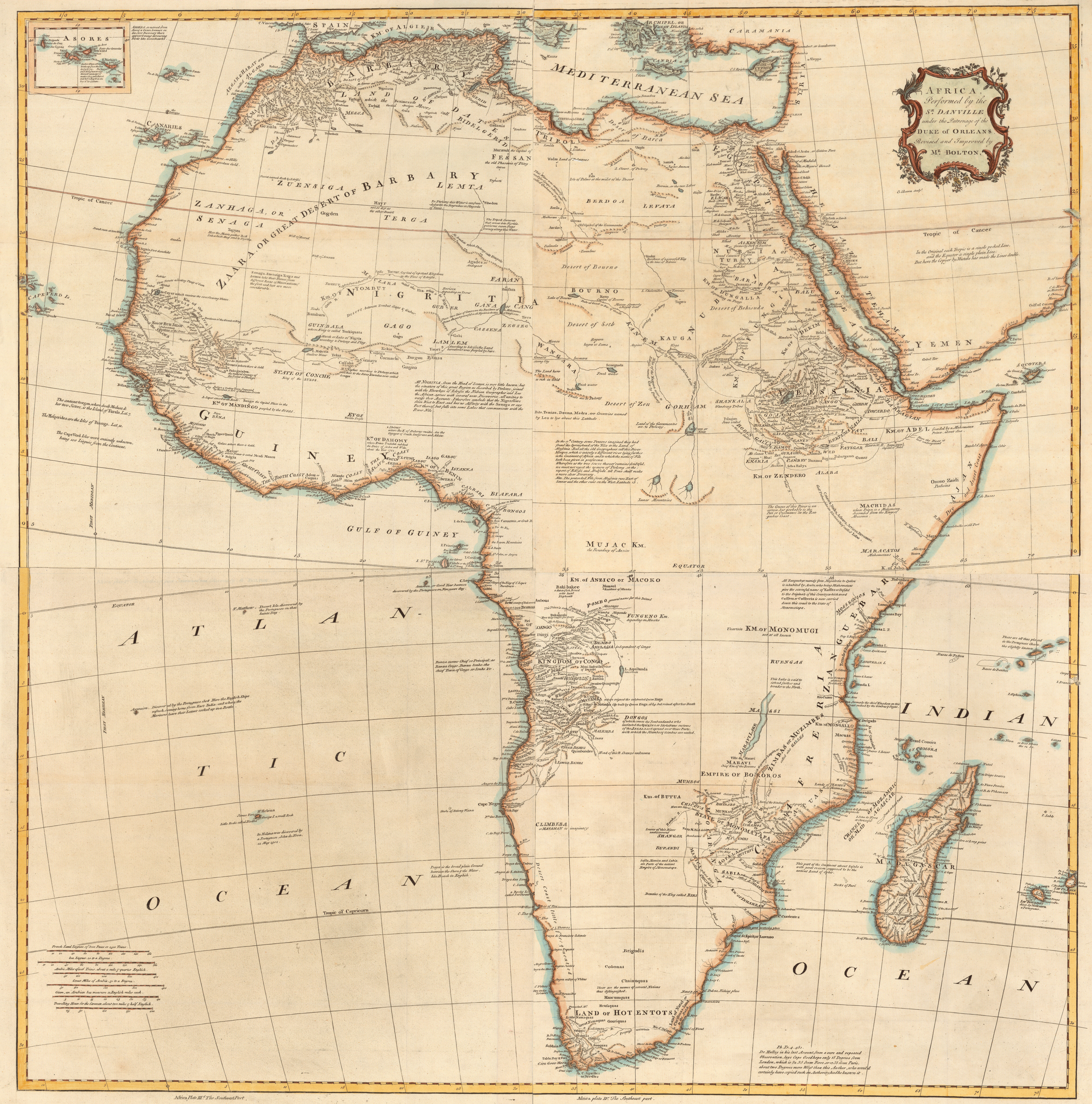 Map of Africa, from Malachy Postlethwayt, The Universal Dictionary of Trade and Commerce, presumed 3rd edition of 1766.